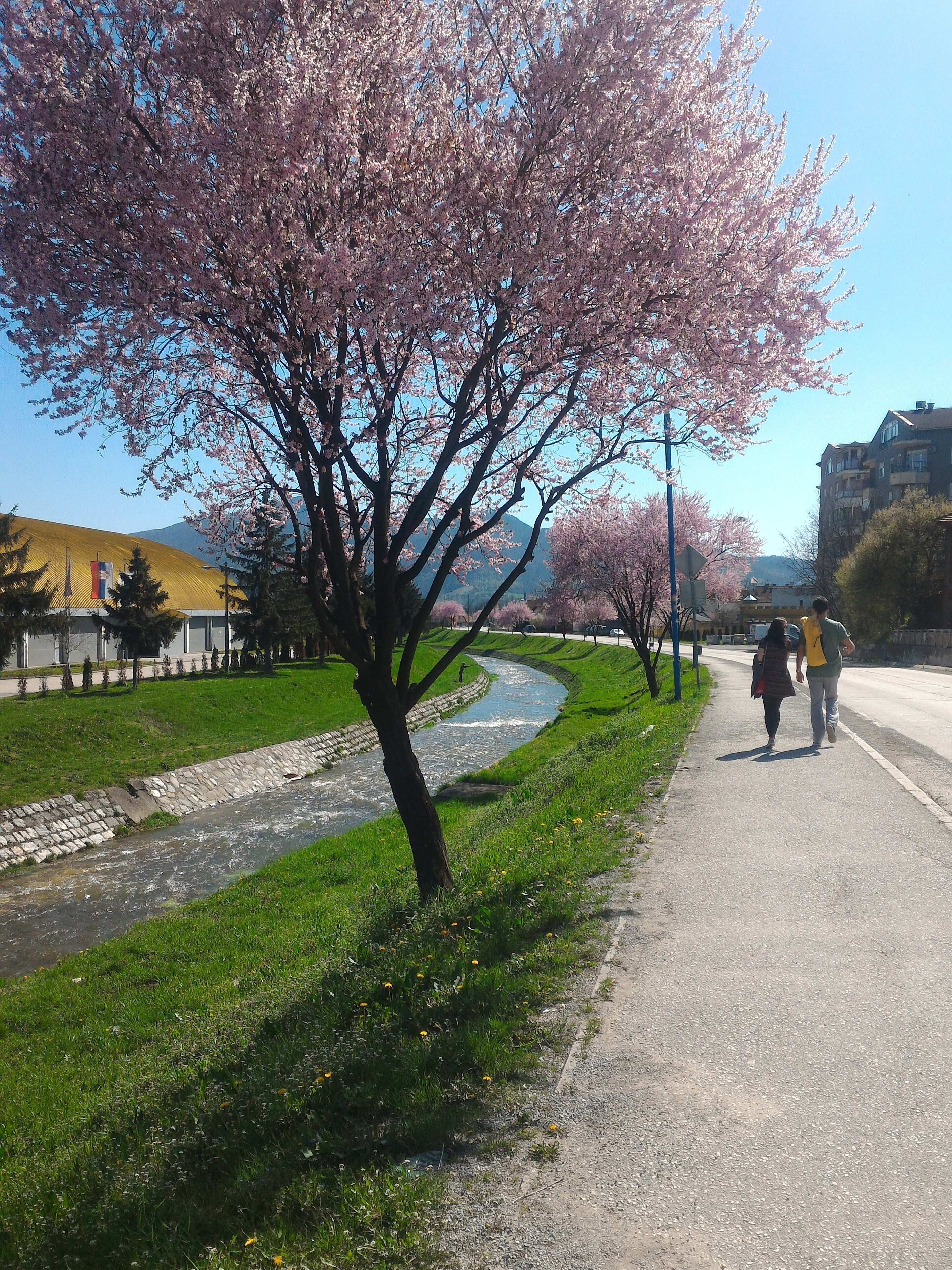 Despotovica river, Gornji Milanovac, Serbia